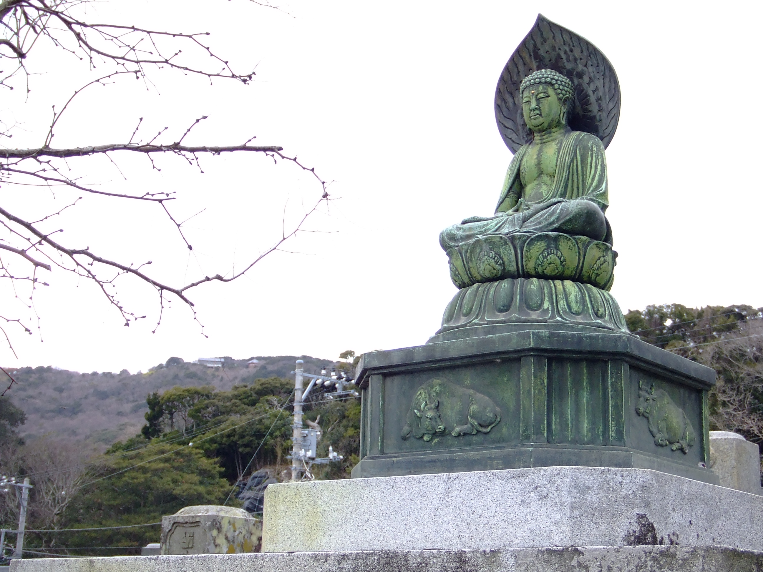 A monument erected at the Gyokusenji temple in Shimoda, Shizuoka Prefecture, Japan. According to an English sign: "This monument, erected in 1931 by the butchers of Tokyo, marks the spot Where the first cow in Japan was slaughtered for human consumption. (Eaten by Harris and Heusken)". I took this photo with a digital camera on 24th February 2007.